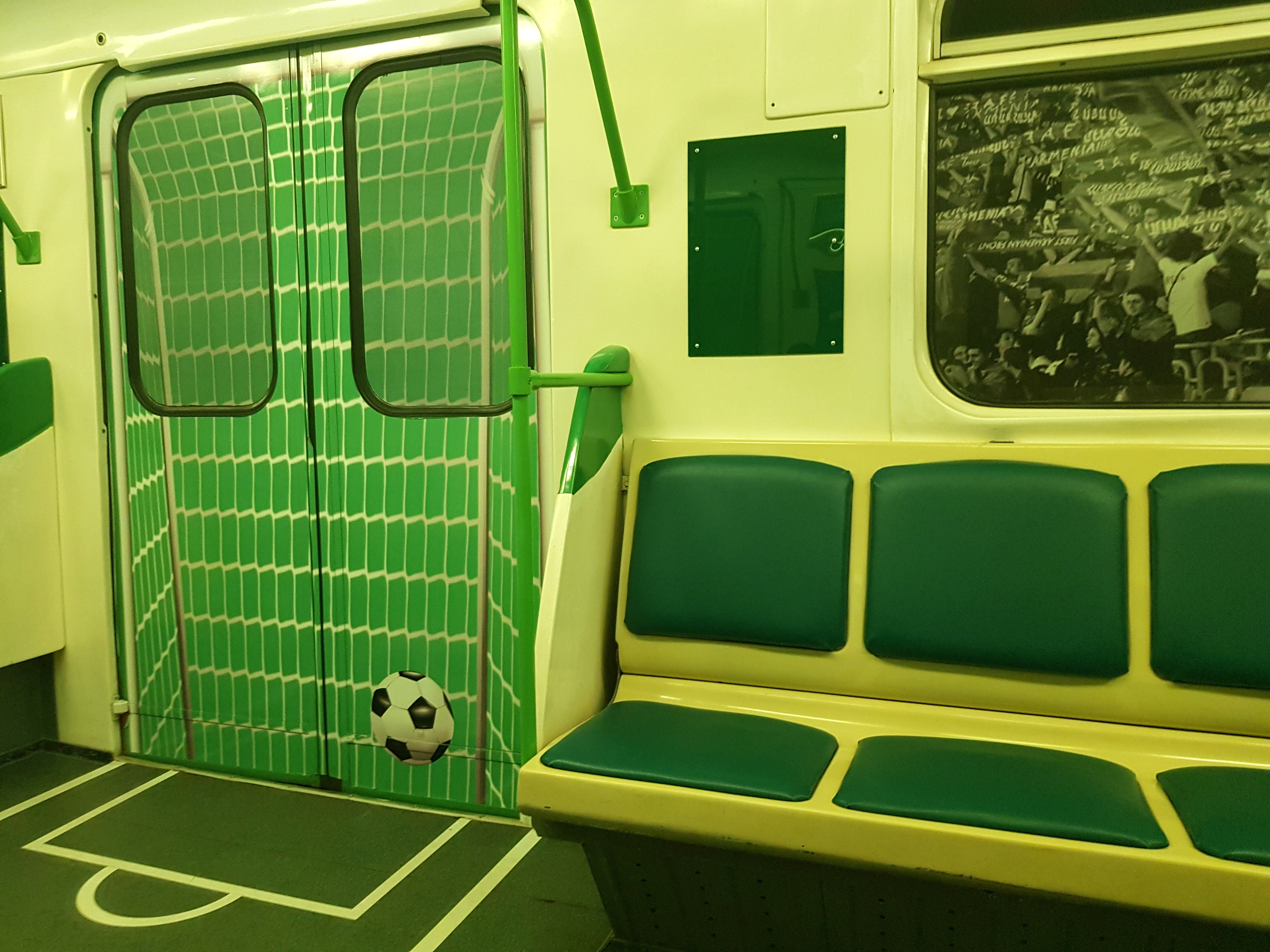 Football decorations in Yerevan metro